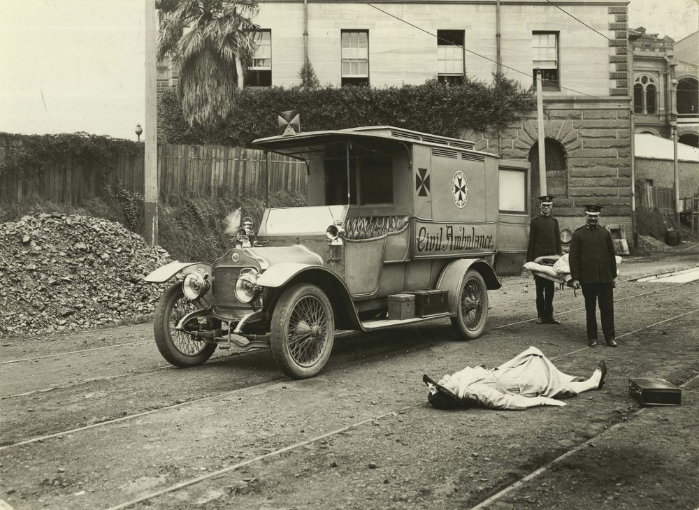 "The ambulance would appear to be Sydney's first motor ambulance, which was donated to the Ambulance Corps by Mr Anthony Hordern on 27 May 1912. Yes, you're right the minutes record that the vehicle was built on a Minerva chassis. Sydney's second ambulance, built on a 15/20 hp Armstrong-Whitworth chassis was received on 21 June 1913. Ambulance No 2 had a body that was constructed to be as near as possible as to resemble to Ambulance No 1. (Source: The Ambulance Service of Sydney 1894-1976 - Clement Deeth, former Chairman, Central District, NSW Ambualnce Service)" copied from comments below the photo in Flickr New South Wales Railway Ambulance Corp Transport service vehicle - training exercise Dated: 1923 Digital ID: 17420_a014_a014000146 Rights: We'd love to hear from you if you use our photos. Many other photos in our collection are available to view and browse on our website using Photo Investigator .